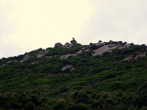 elba island